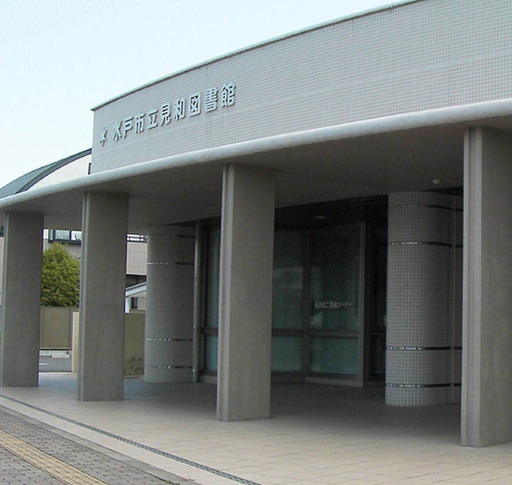 This is Mito city Miwa library in Mito, Ibaraki, Japan.